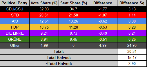 The disproportionality of the German federal election 2017 was 3.90 according to the Gallagher Index